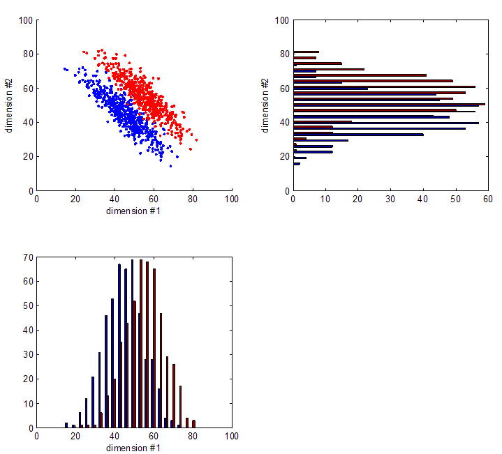 Data fusion, is generally defined as the use of techniques that combine data from multiple sources (dimension #1 & #2) and gather that information in order to achieve inferences (see scatter plot), which will be more efficient and potentially more accurate than if they were achieved by means of any single source (one or the other histogram).